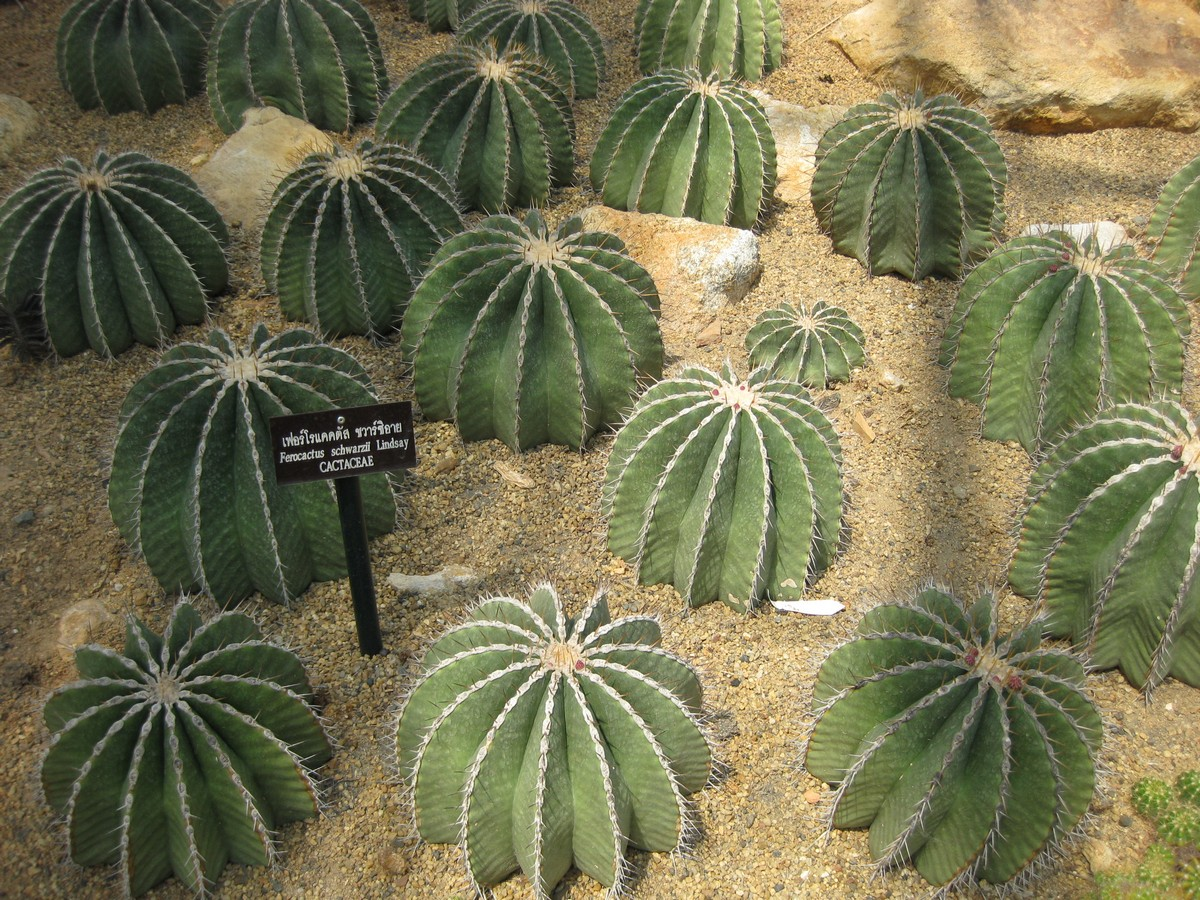 Photographed at the Queen Sirikit Botanic Garden (Chiang Mai Province, Thailand) in March